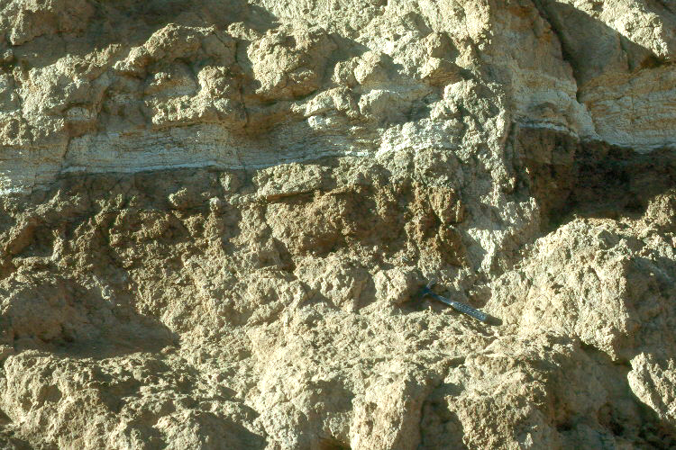 Fossil Mollisol paleosol * Ma from the Rattlesnake Formation near dayville, Oregon